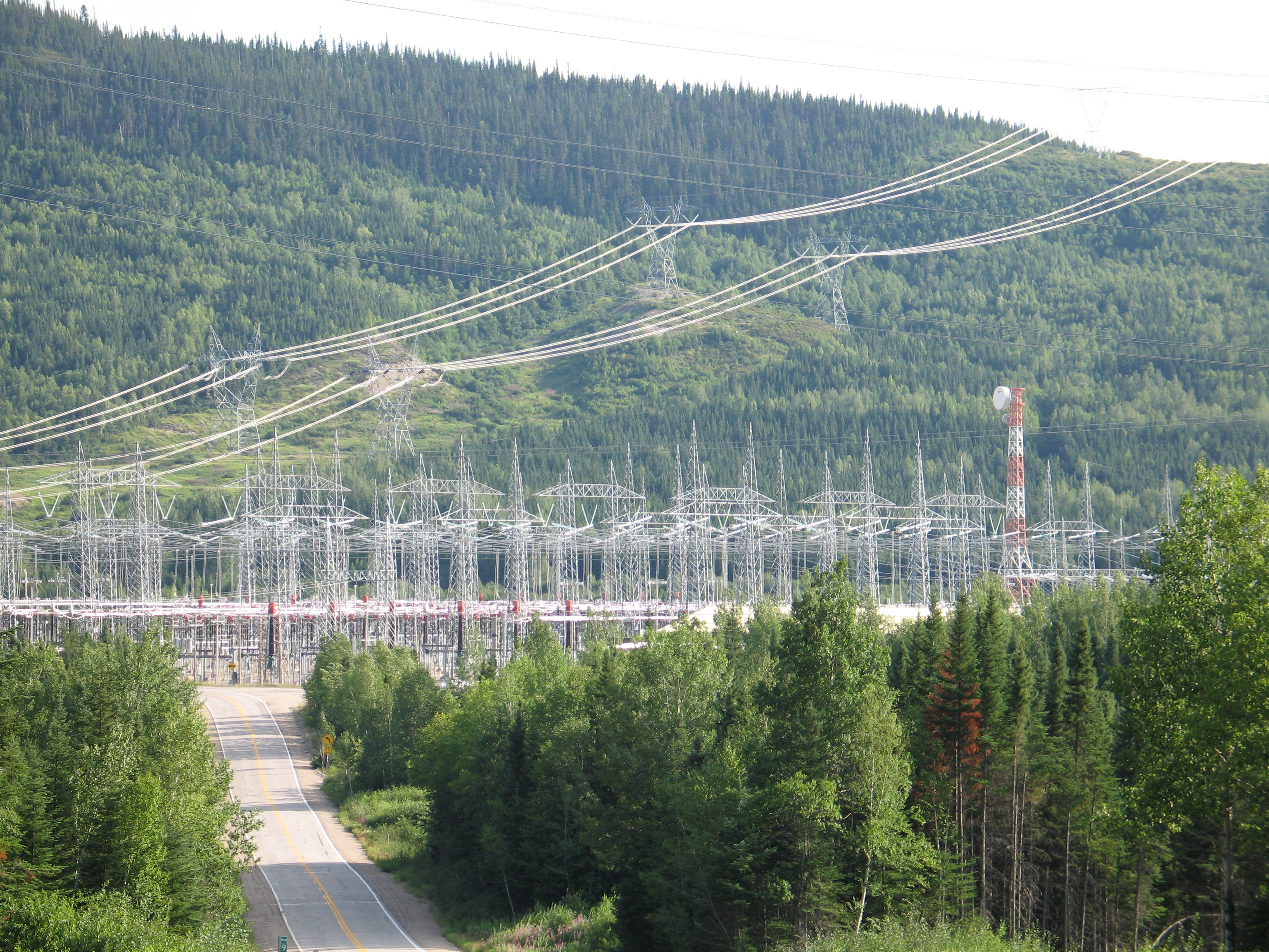 Located on Quebec's North Shore, the Micoua electric substation converts 315kV power from five hydroelectric dams for transmission at 735 kV. The facility, owned by Hydro-Québec's TransÉnergie division, is one of the northern hubs of its 12,000 km network of 735 kV power lines.